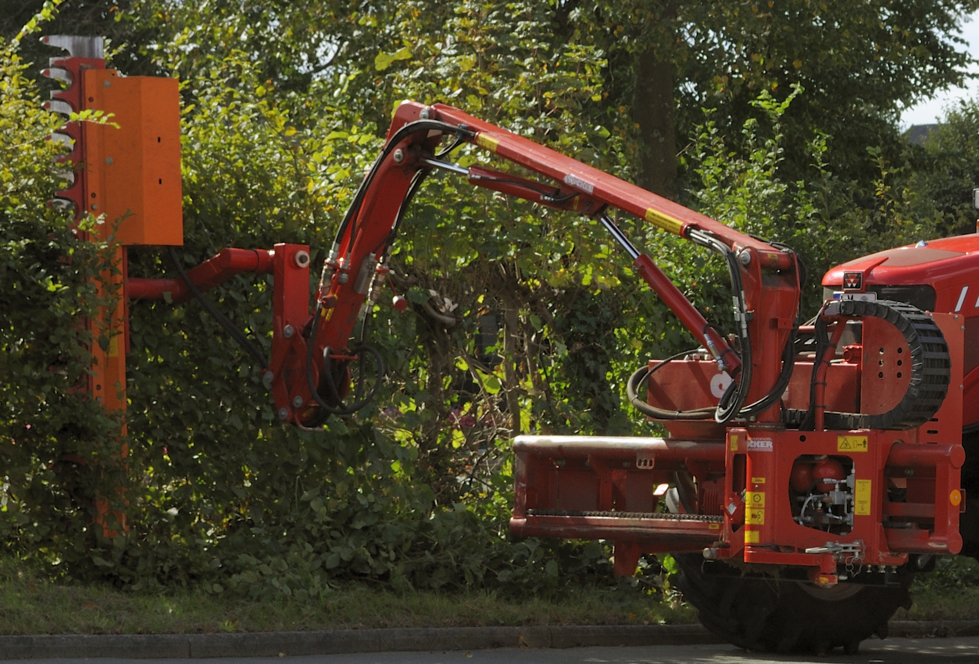 A Dücker "branch and hedge cutter" at the front of a Massey Ferguson 7465 tractor (it's a large brush trimmer, not a reach flail mower).